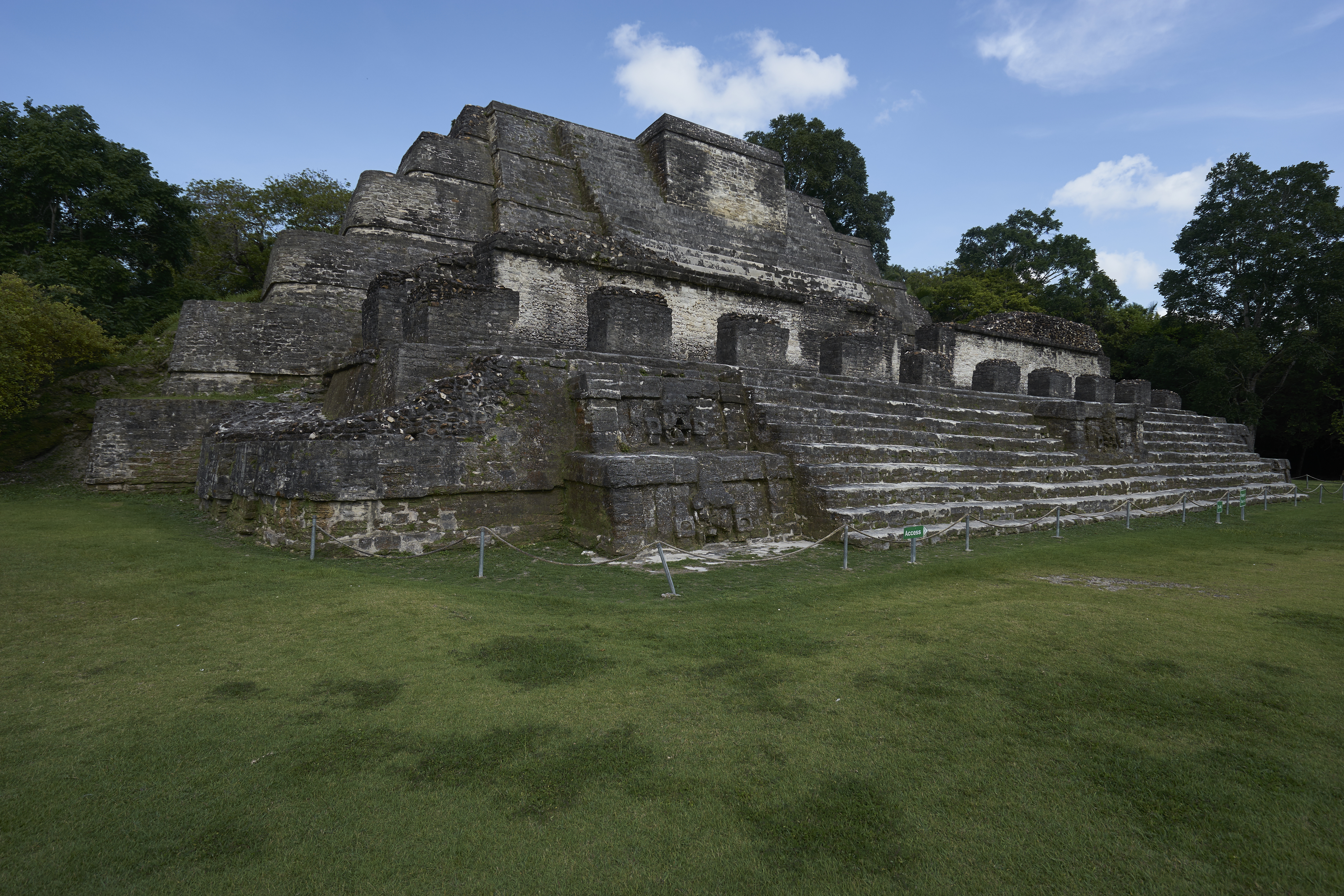 Structure B4 (Temple of the Sun God/Temple of the masonry altars) at Altun Ha archeological site, Belize The making of this document was supported by the Community-Budget of Wikimedia Germany.